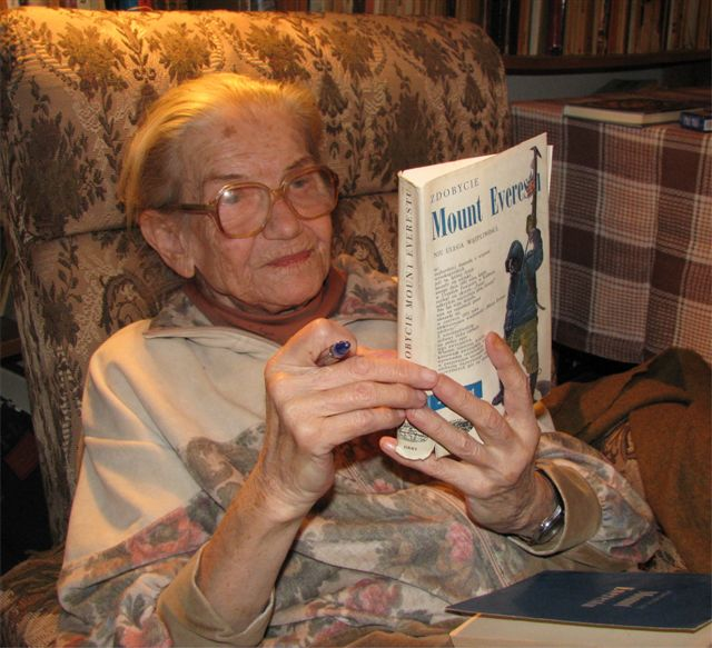 Krystyna Goldberg (b. February 26, 1930, in Warsaw, Poland), Polish journalist, publicist and editor. She lives in Warsaw, Poland